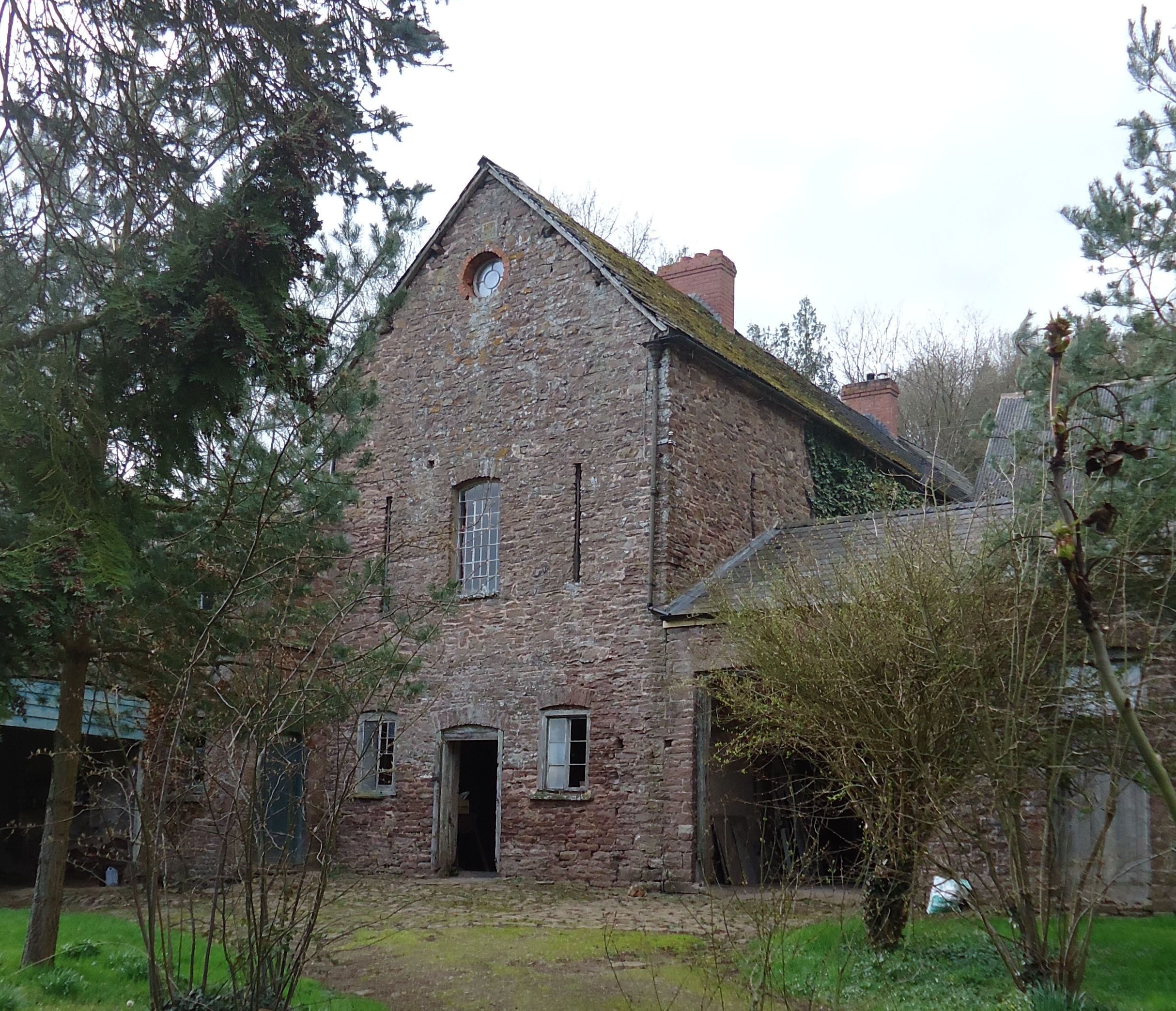 Lower Cwm, Llanrothal, Herefordshire